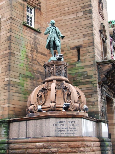 James Watt Statue Located near the birthplace of Greenock's most famous son.